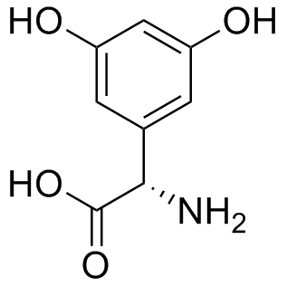 Structure of dihydroxyphenylglycine